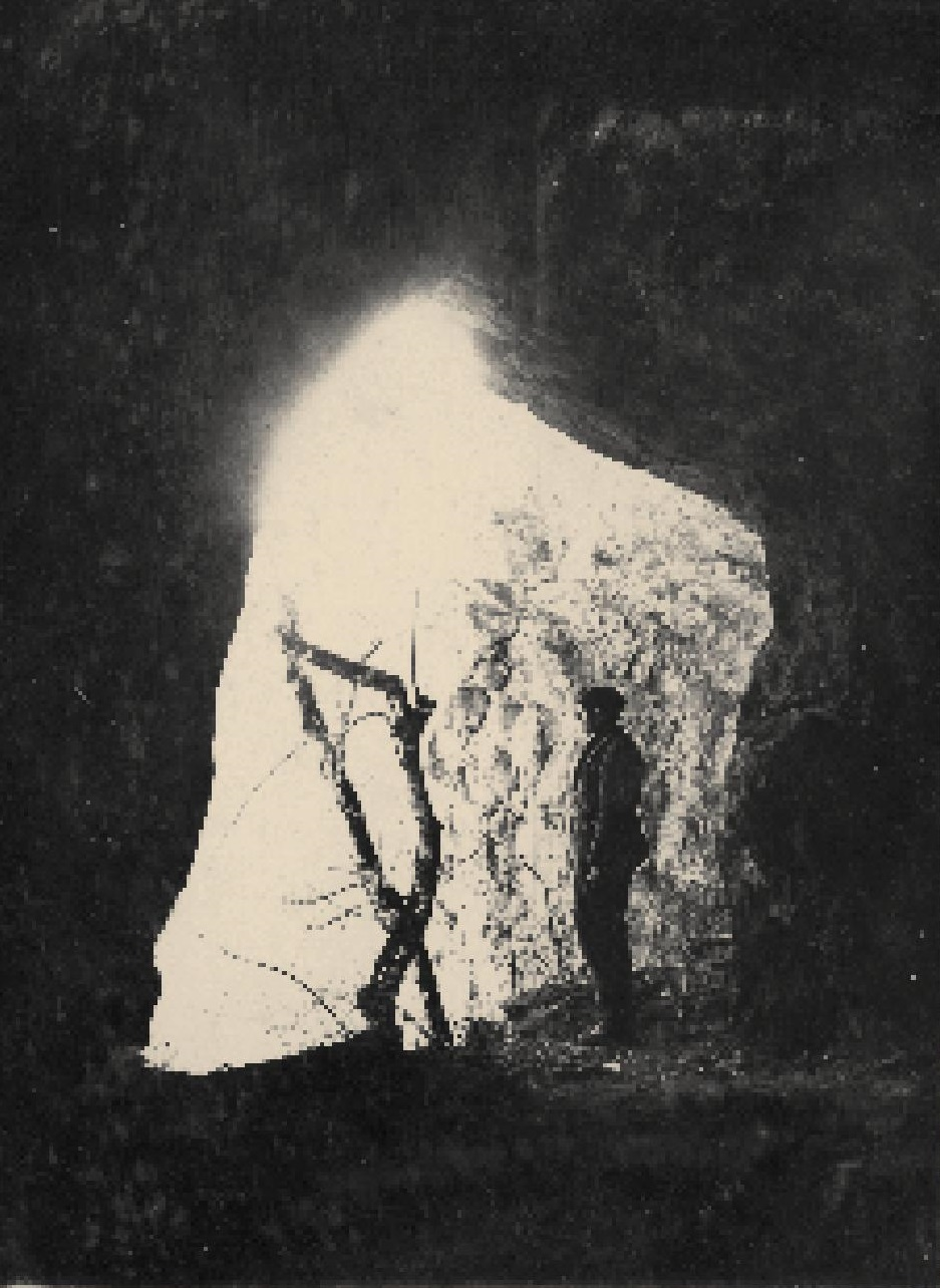 The Füzér-kő Cave.